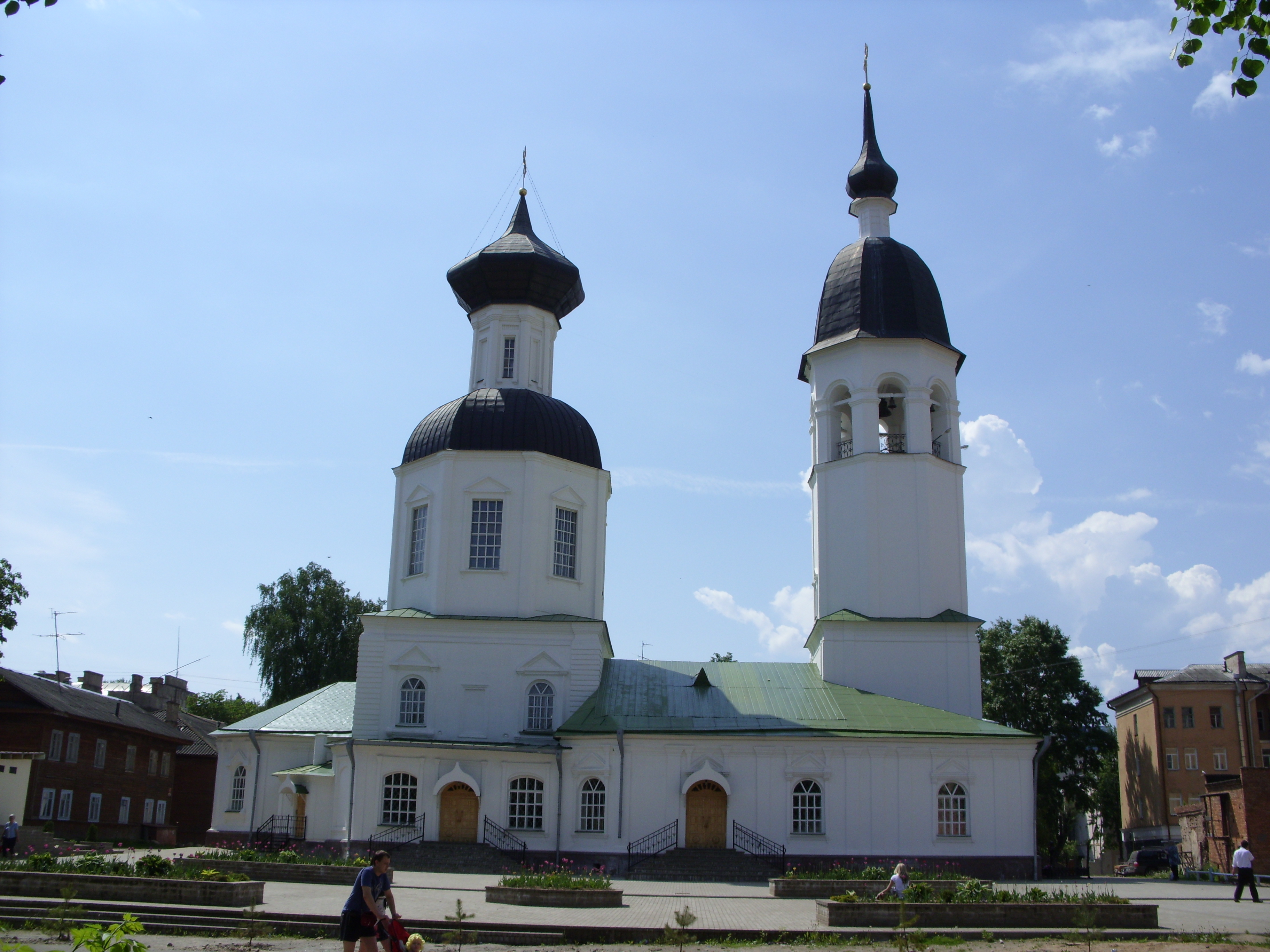 Voznesenija_VLuki_mai2010-1